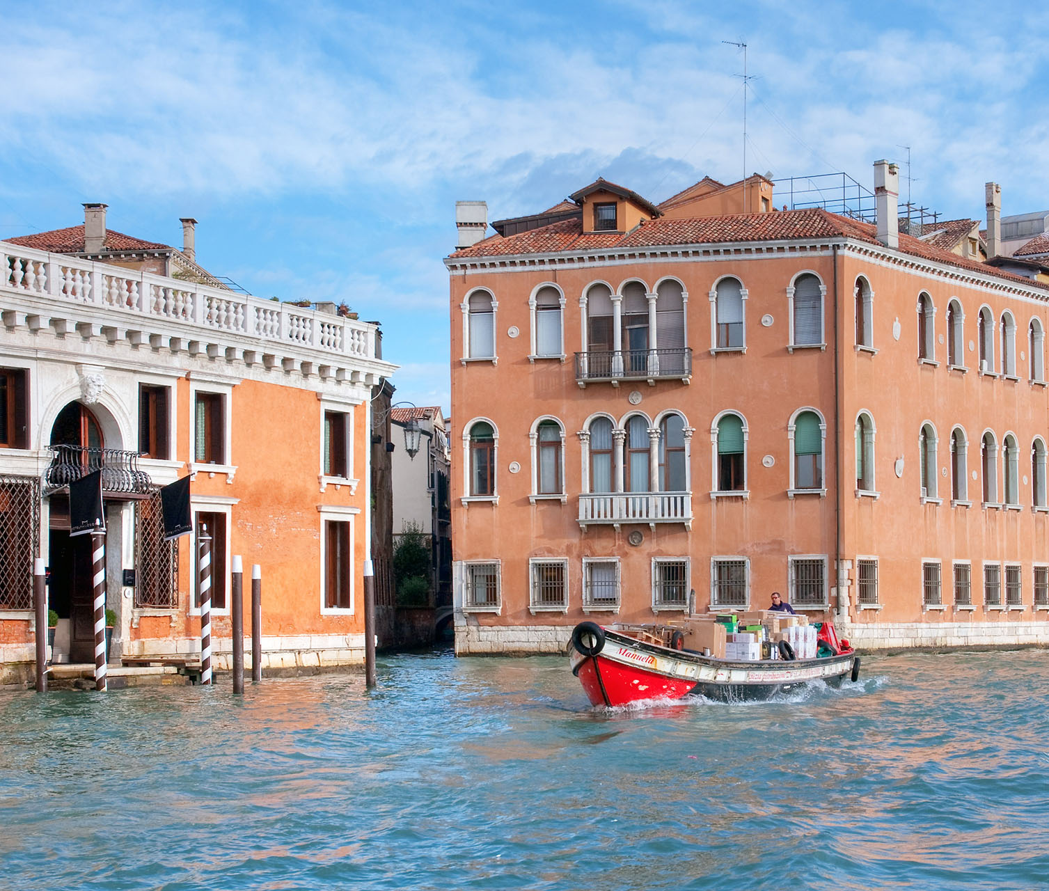 The Grand Canal, Intersection with Rio di San Polo / Venice, Italy